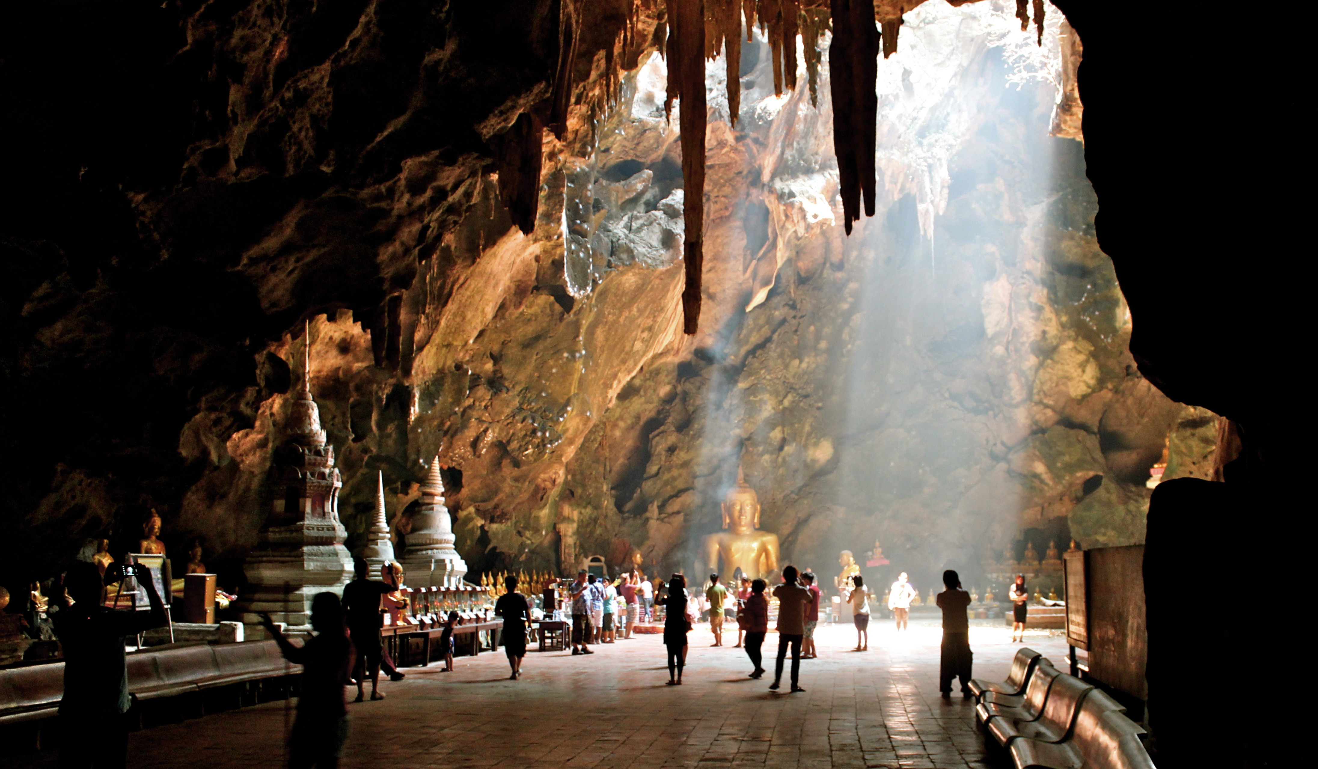 Tham Khao Luang Cave, Thong Chai, Phetchaburi, Thailand.